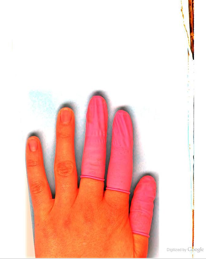 A hand scanned in a book scanner - with a very old book - wearing three pink finger-gloves